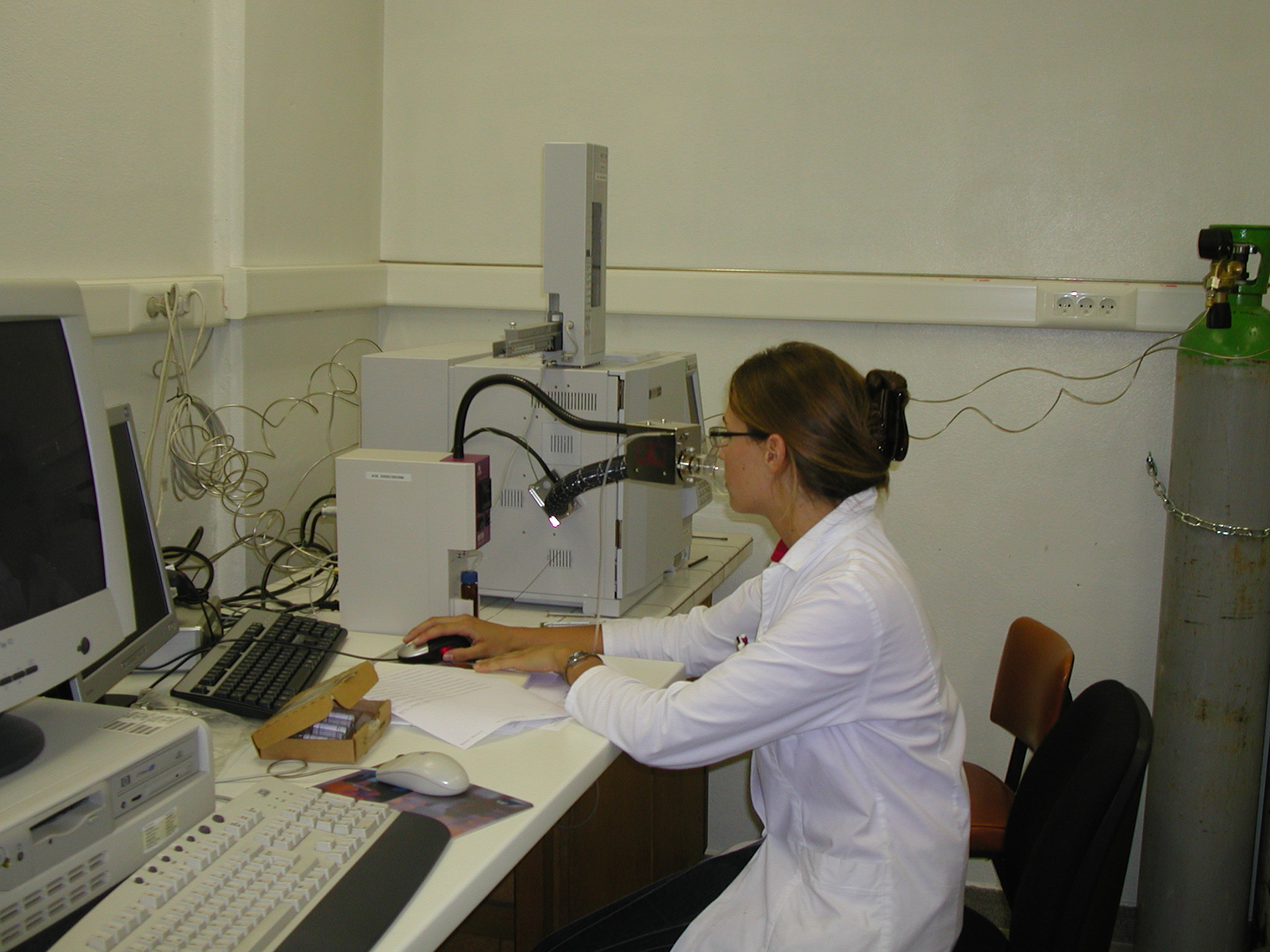 Gaz Chromatograph Olfactometer